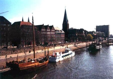 The river promenade Schlachte in Bremen, Germany. To the left lies the cog SV Roland von Bremen, to the right the restaurant ship MS Admiral Nelson. Visible in the background is the St. Martin's Church.